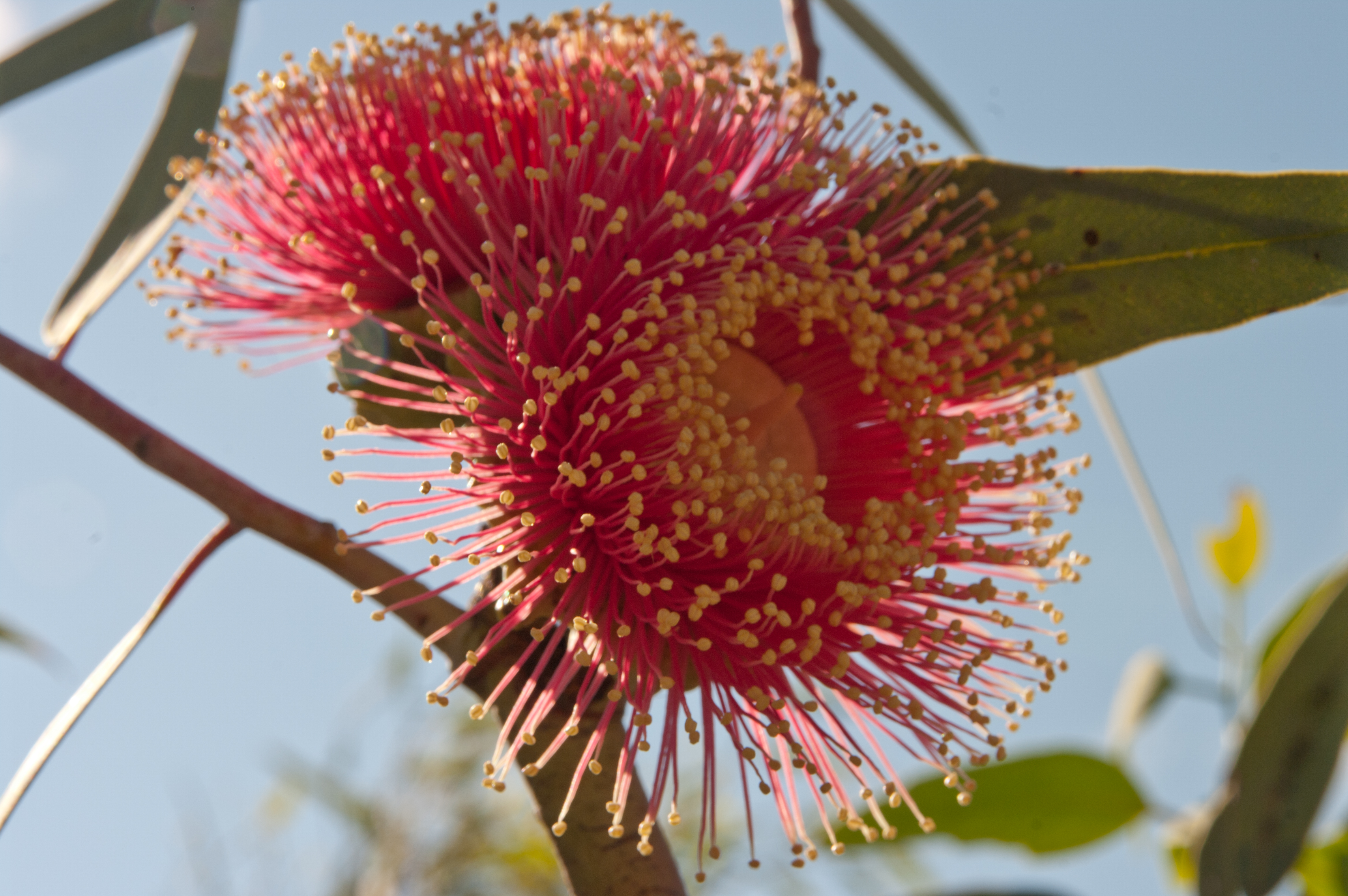 Eucalyptus youngiana